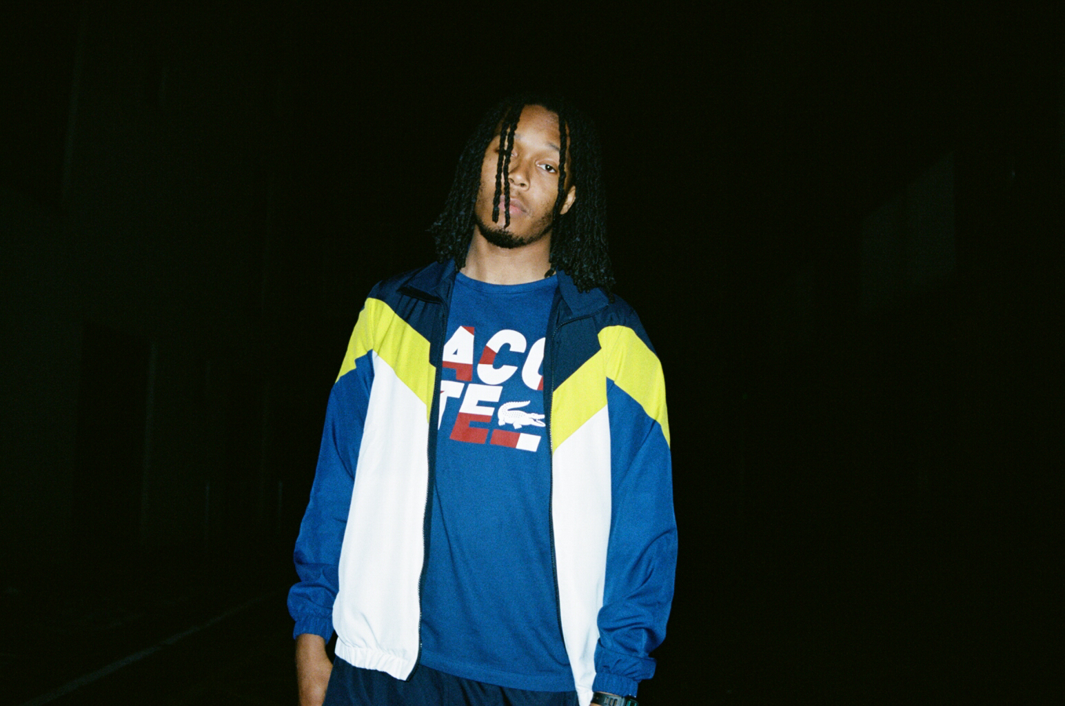 Image of Merky ACE, an English grime MC from Lewisham, South London.